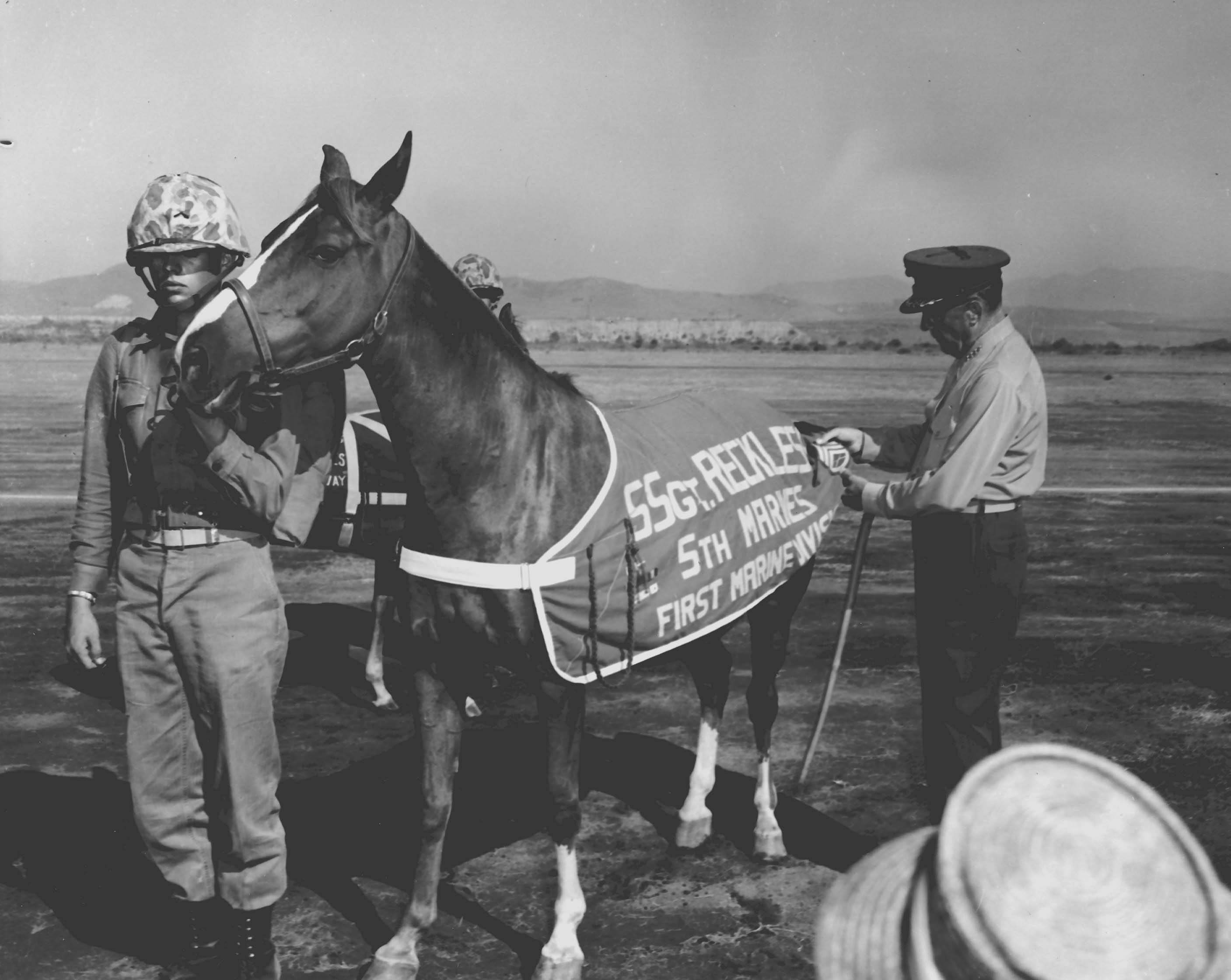 Sergeant Reckless getting promoted to Staff Sergeant in 1959 at Camp Pendleton. Private First Class Winford G. McCraken, Headquarters Company, 5th Marines stands by Reckless as General Randolph M. C. Pate, Commandant of the Marine Corps tacks on the chevrons on Staff Sergeant Reckless blanket.